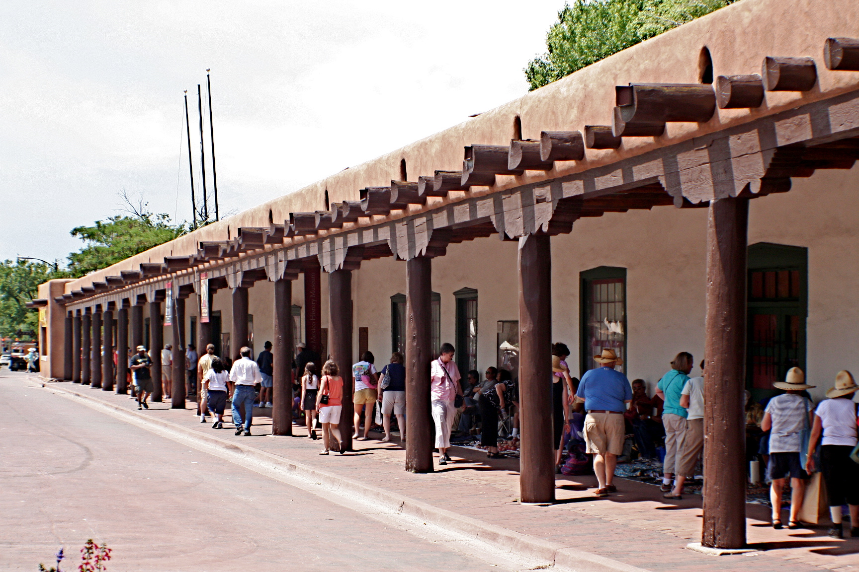 Artisan sales under the portal of the Palace of the Governors, Santa Fe, New Mexico